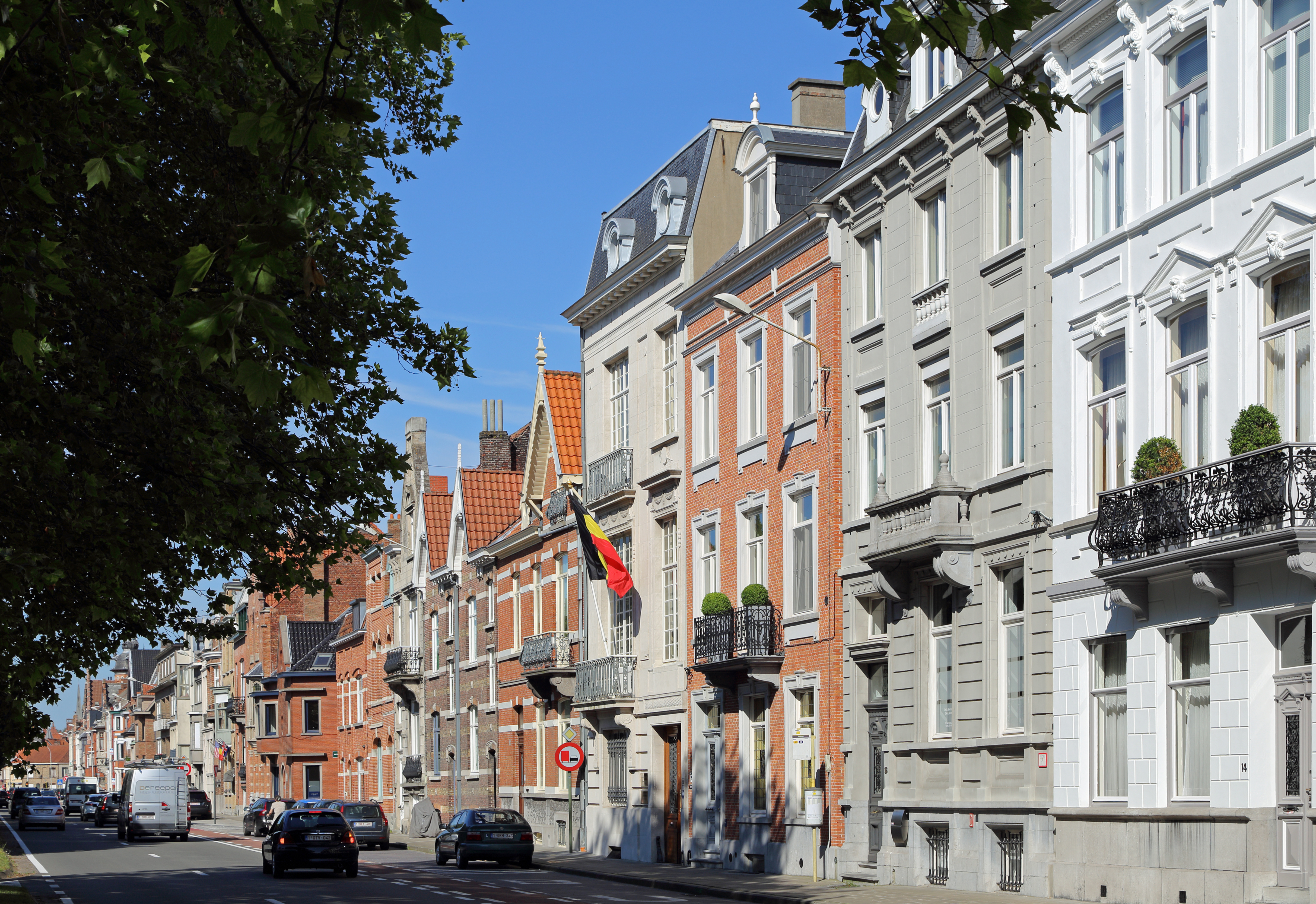 Bruges (Belgium): Koningin Elisabethlaan